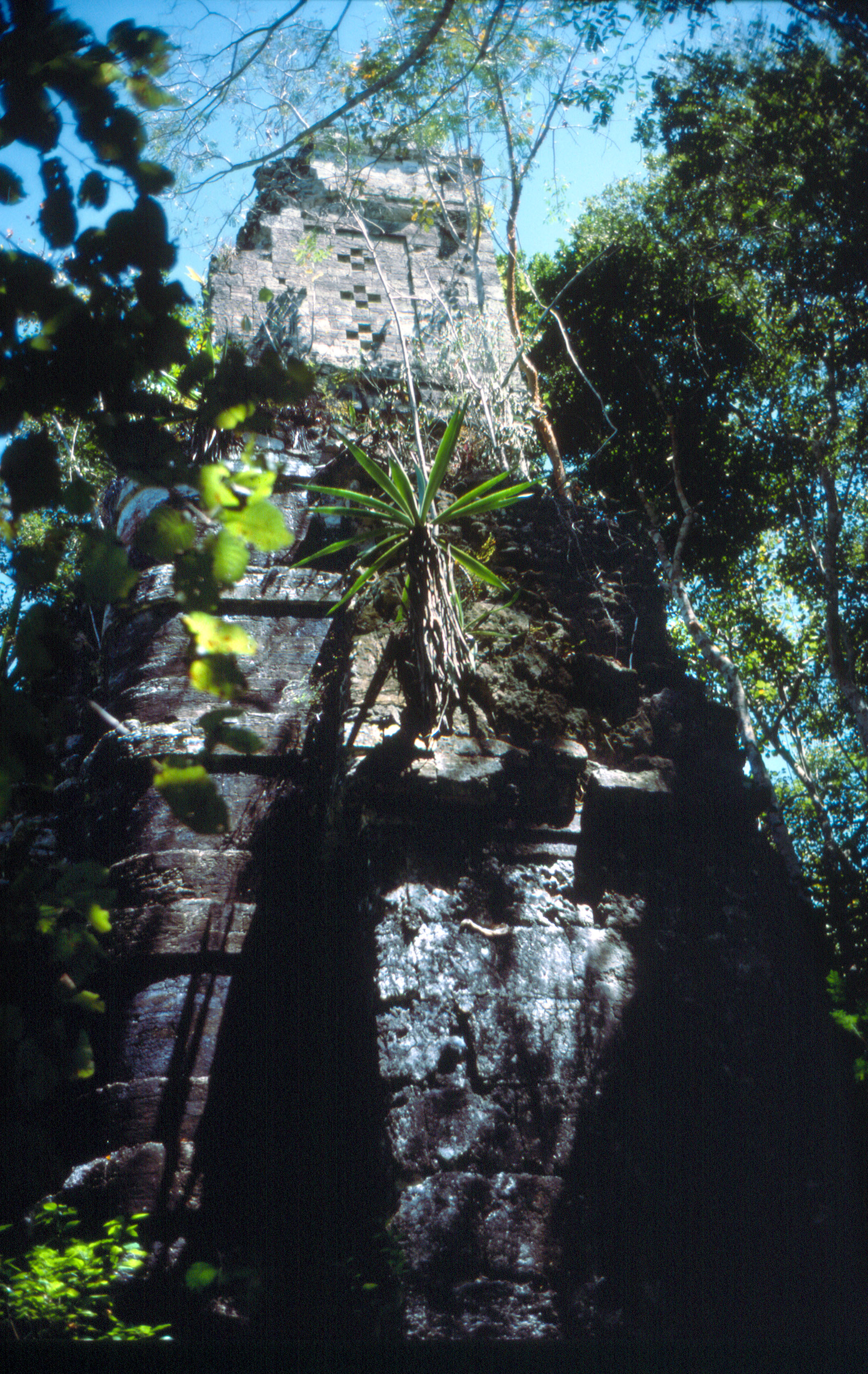 Río Bec N, Campeche, Yucatan.